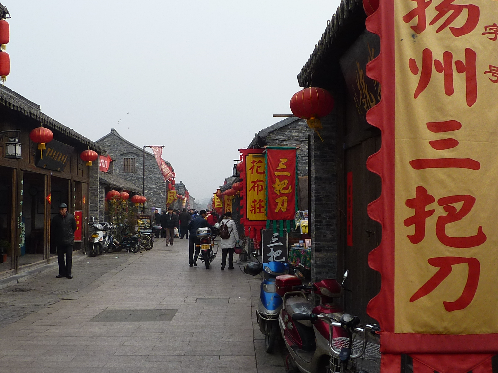 Dongguan St, a popular tourist, entertainment and (somewhat upscale) shopping street on the north side of Yangzhou's historic center. It continues to the west as Caiyi St